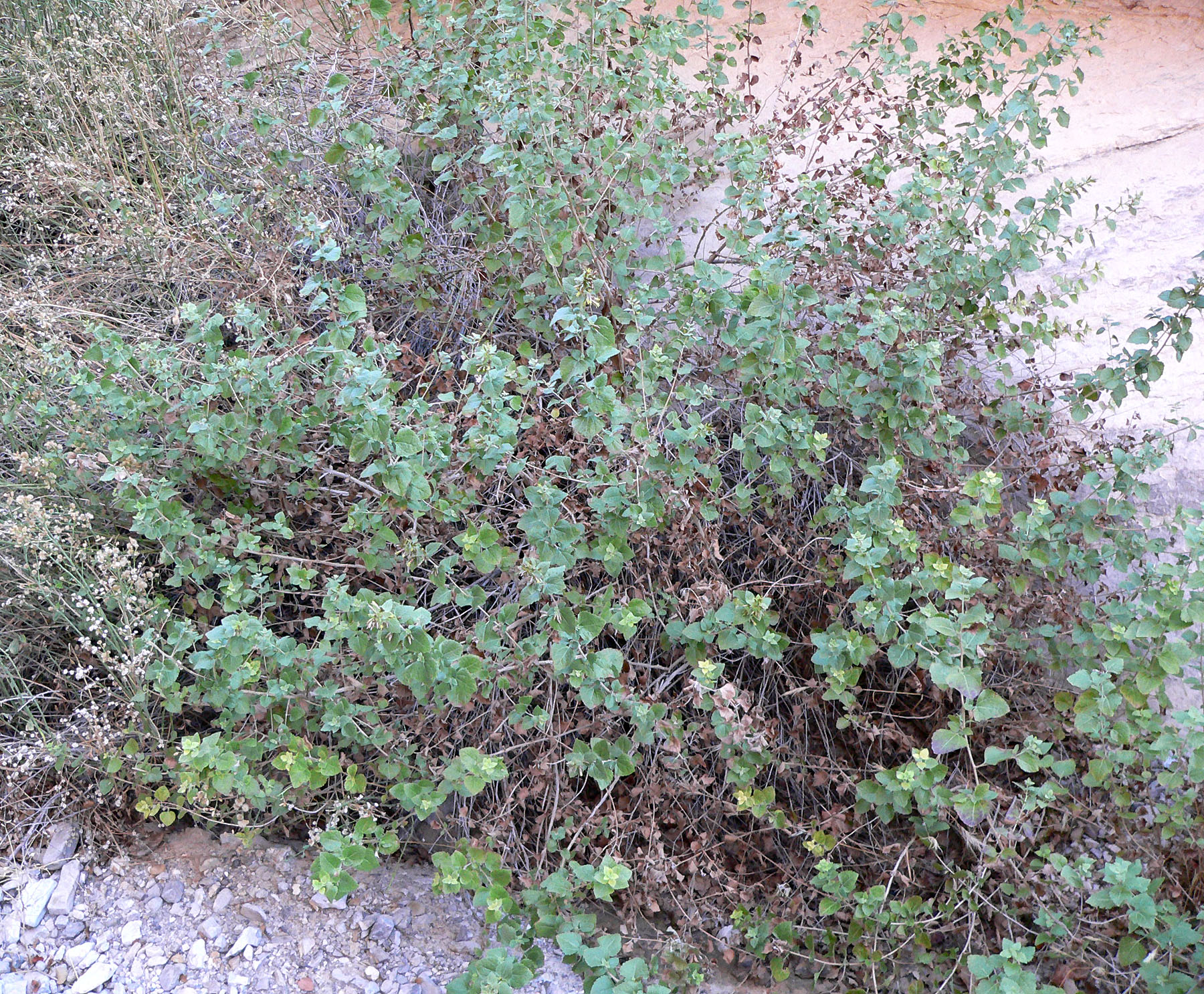 Brickellia californica, Calico Hills, Red Rock Canyon, southern Nevada